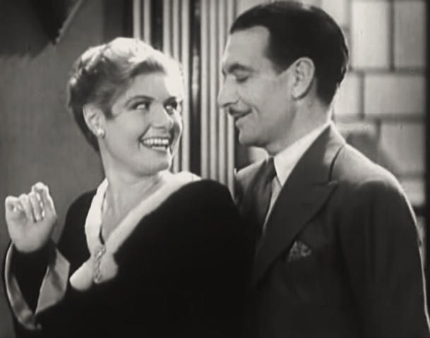 Dorothy Christy & Jameson Thomas in Extravagance - cropped screenshot